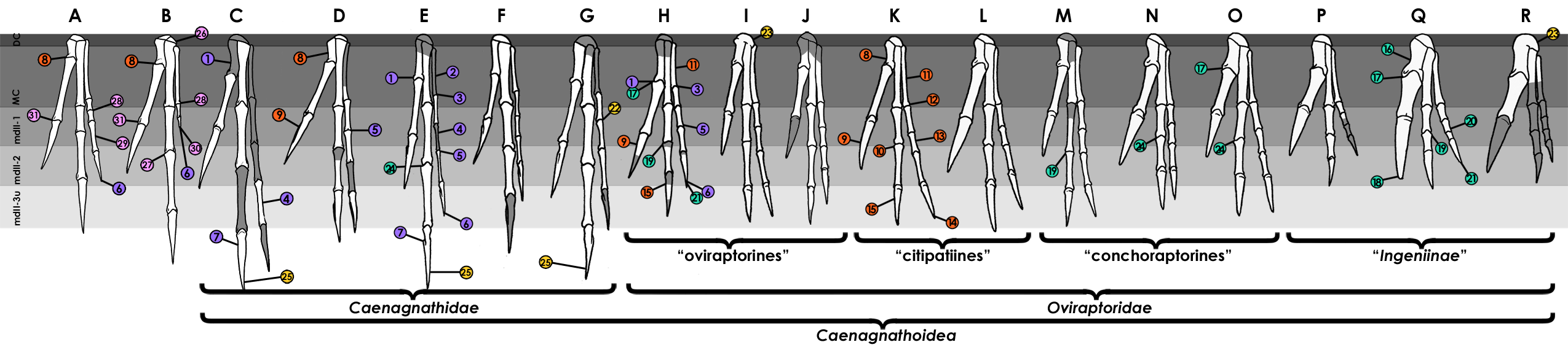 The hands of oviraptorosaurs, showing basal oviraptorosaurs (A-B), Caenagnathidae (C-G) and Oviraptoridae (H-R). Colors signify diagnostic attributes of each group, with blue representing caenagnathid features (1-7), red representing oviraptorid features (8-15), green representing “ingeniine” features (16-21), light orange representing other features (22-25) not evenly distributed among taxa, and violet representing features basal to or restricted to non-caenagnathoid oviraptorosaurs (26-31). See text for clarification. A, Protarchaeopteryx robusta, based on NGMC 2127; B, Caudipteryx sp., based on IVPP V12430; C, Anzu wyliei, based on CM 78000; D, Gigantoraptor erlianensis, based on LH V0011; E, Chirostenotes pergracilis, based on CMN 2367 and RTMP 1979.20.1; F, Hagryphus giganteus, based on UMNH VP 12765; G, Elmisaurus rarus, based on ZPAL MgD-I/98; H, Wulatelong gobiensis, based on IVPP V18409; I, Oviraptor philoceratops, based on AMNH FABR 6517; J, the Bayan Mandahu “oviraptorine,” IVPP V9608; K, the Zamyn Khondt “oviraptorid,” MPC-D 100/42; L, Citipati osmolskae, based on MPC-D 100/979; M, Conchoraptor gracilis, based on MPC-D 100/20; N, Khaan mckennai, based on MPC-D 100/1127; O, Machairasaurus leptonychus, based on IVPP V15979; P, Nemegtomaia barsboldi, based on MPC-D 107/15 and 107/16; Q, “Ingenia“ yanshini, based on MPC-D 100/30; R, Heyuannia huangi, based on HYMV1-2.